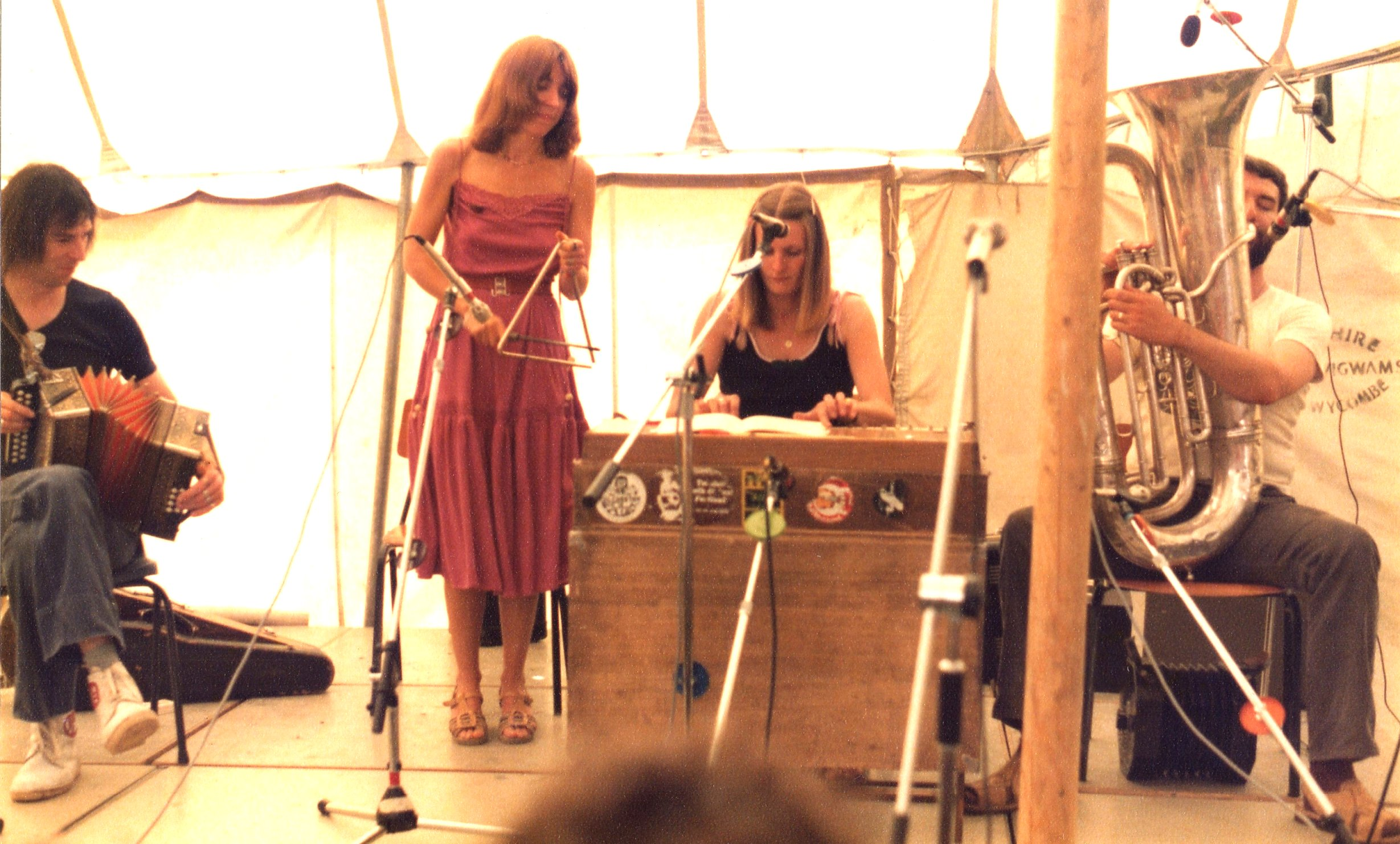 Muckram Wakes, part of the The New Victory Band, UK folk artists on stage at the 1980 Towersey Festival (Tony Rees photograph). L-R: John Adams, Suzie Adams, Helen Watson and Roger Watson.